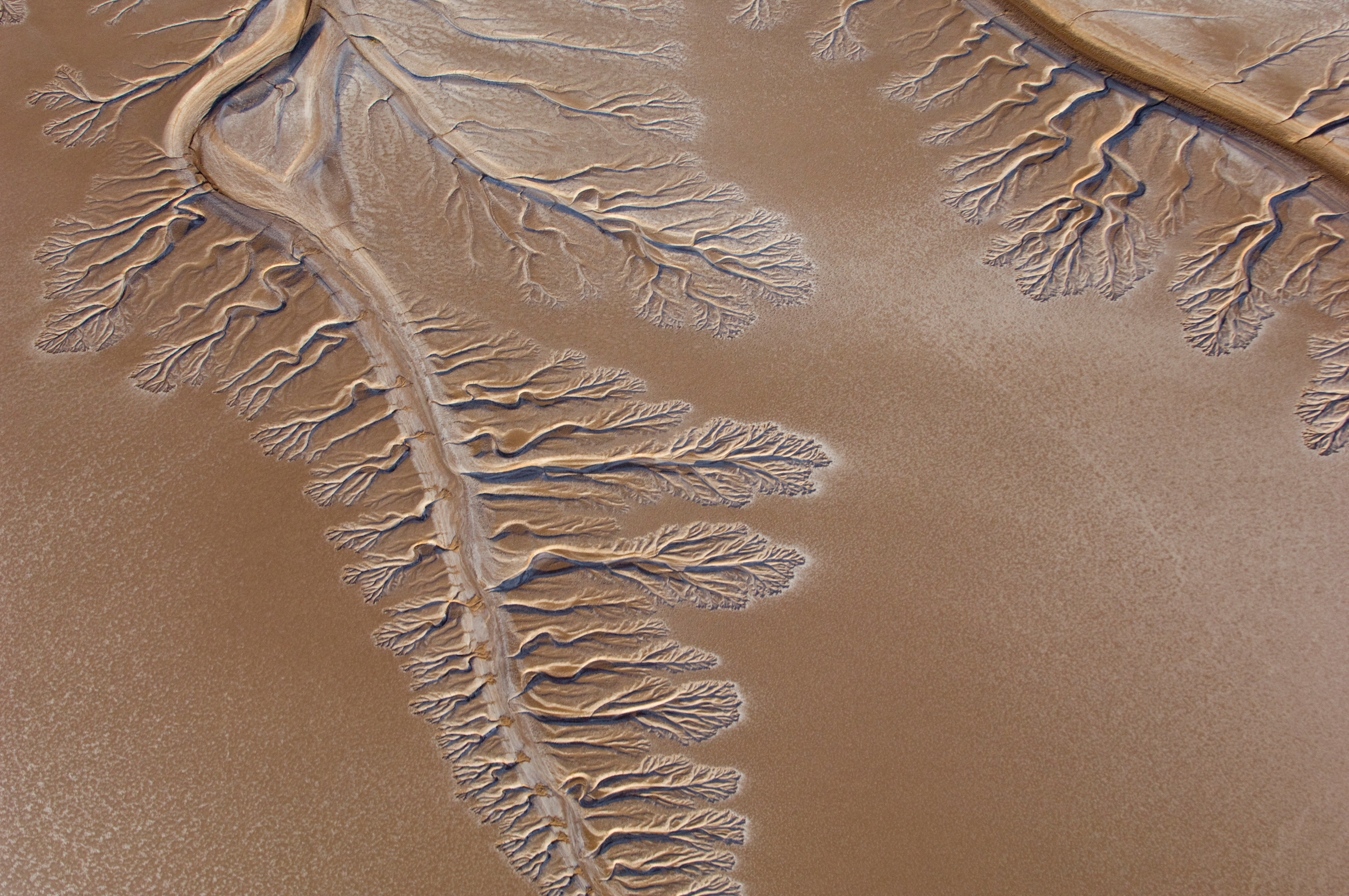 Colorado River Dry Delta, terminus of the Colorado River in the Sonoran Desert of Baja California and Sonora, Mexico, ending about 5 miles north of the Sea of Cortez (Gulf of California).